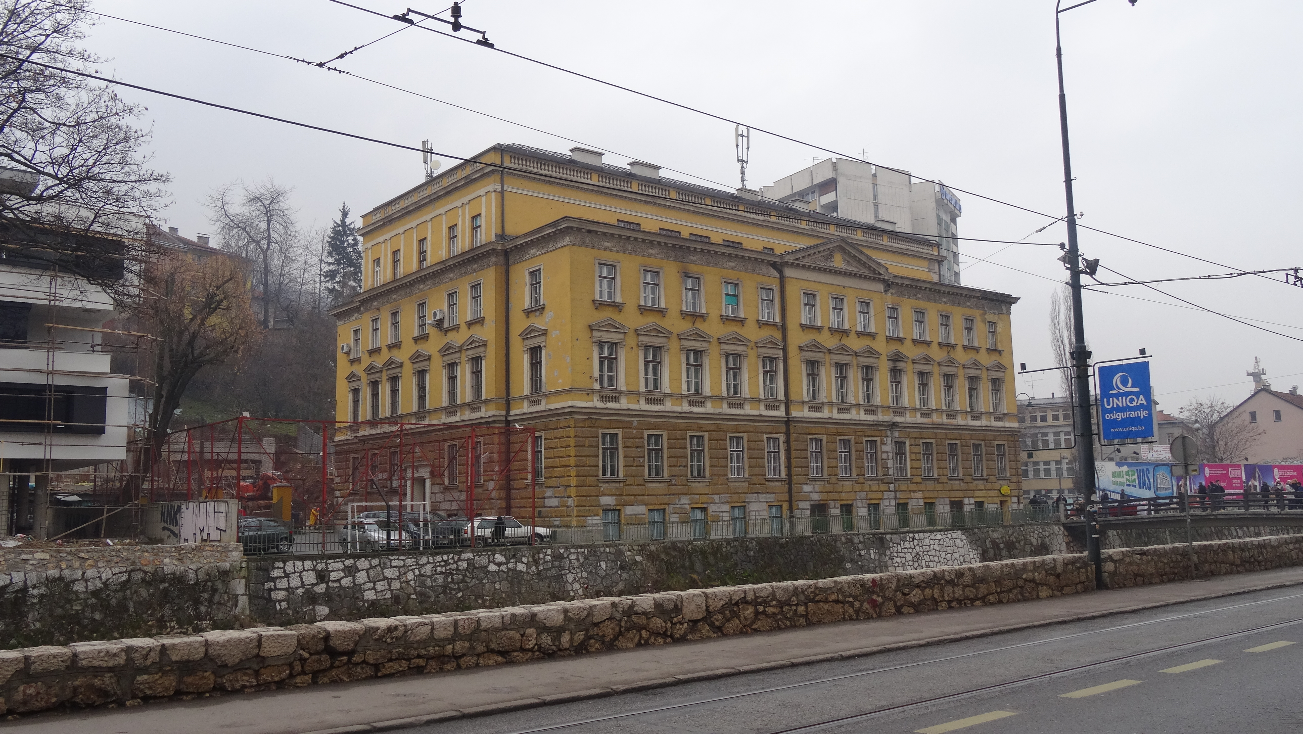 High school of agriculture, food, veterinary medicine and services in Sarajevo